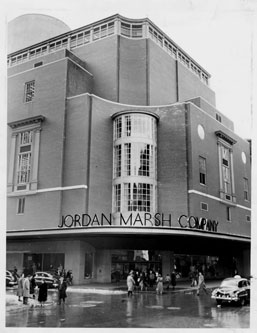 The main entrance of the Jordan Marsh complex at 450 Washington Street in Boston